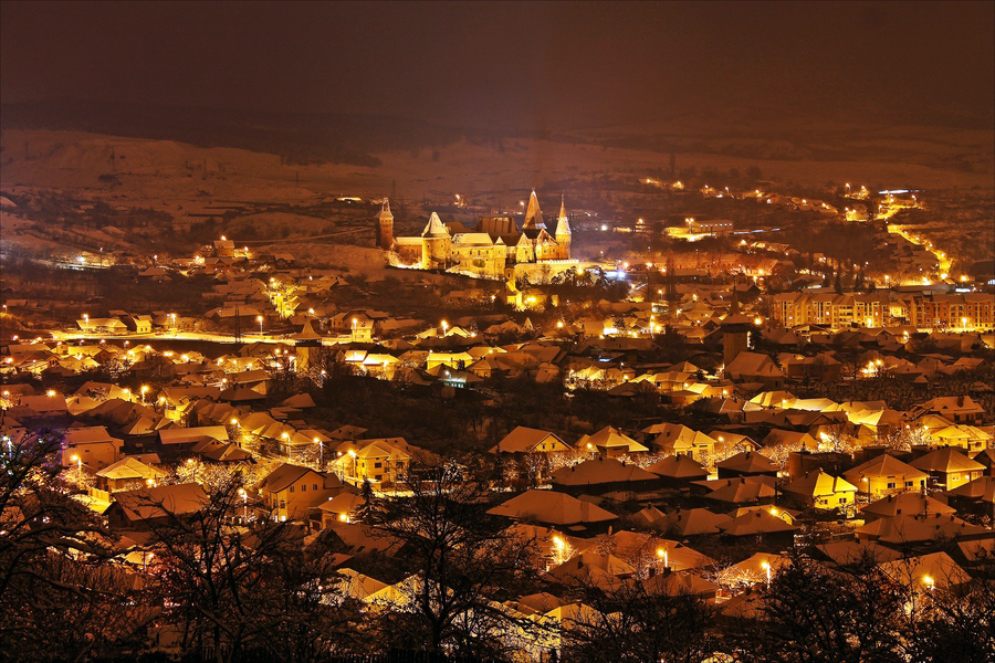 Hunedoara skyline view